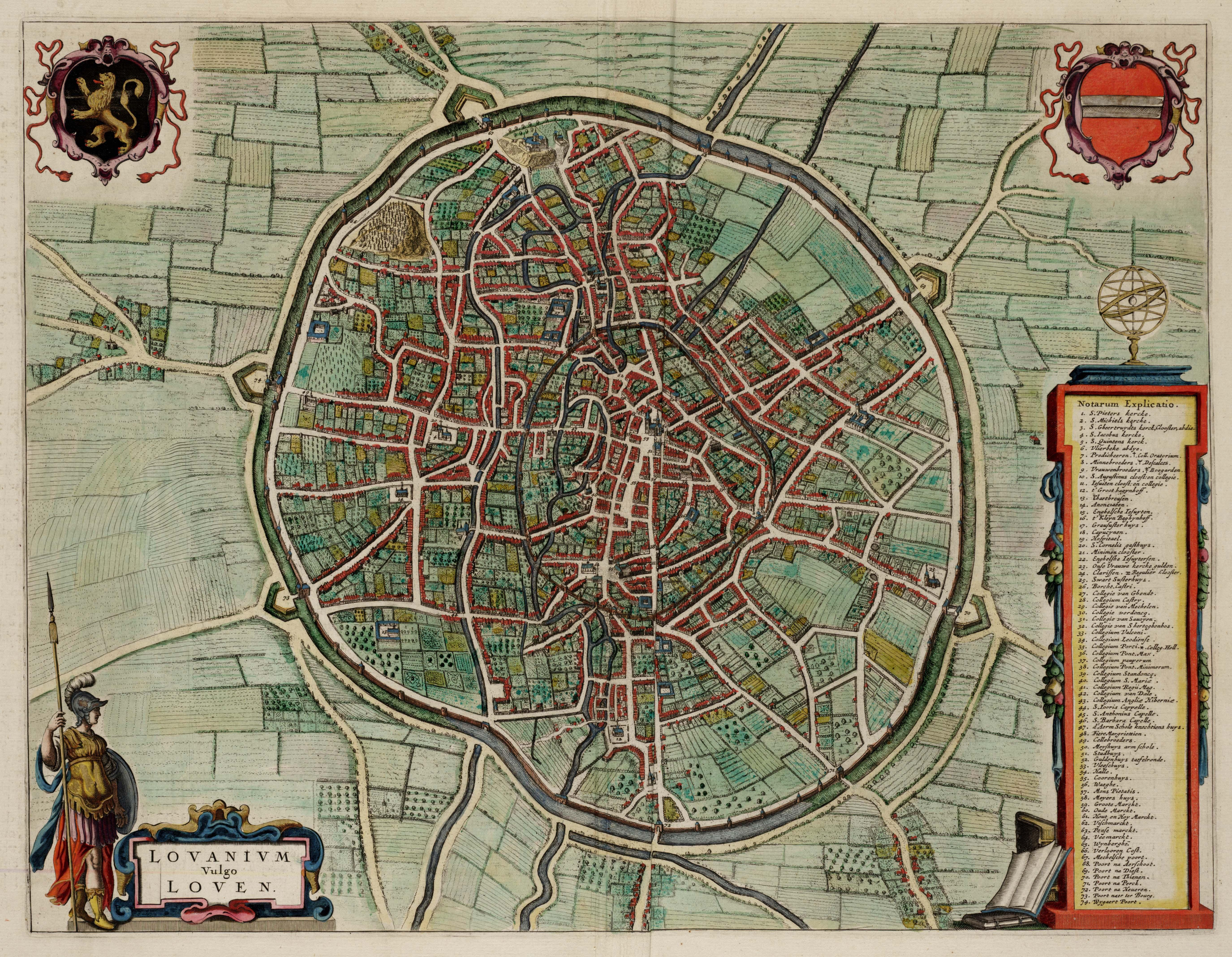 Map of Leuven